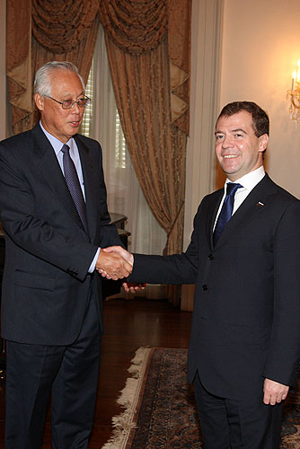 SINGAPORE. With Senior Minister of Singapore Goh Chok Tong.